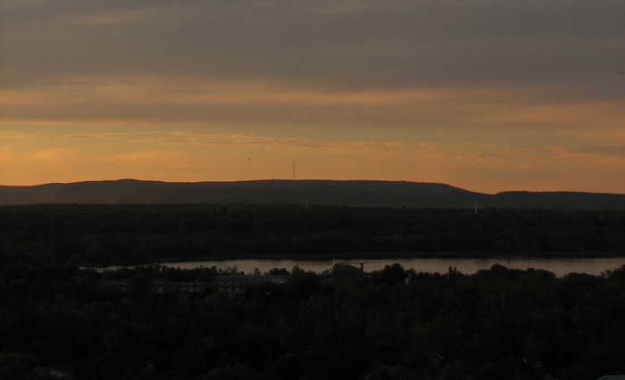 Wilder Mendez